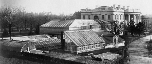 View of the White House conservatories. Collection of the Library of Congress.